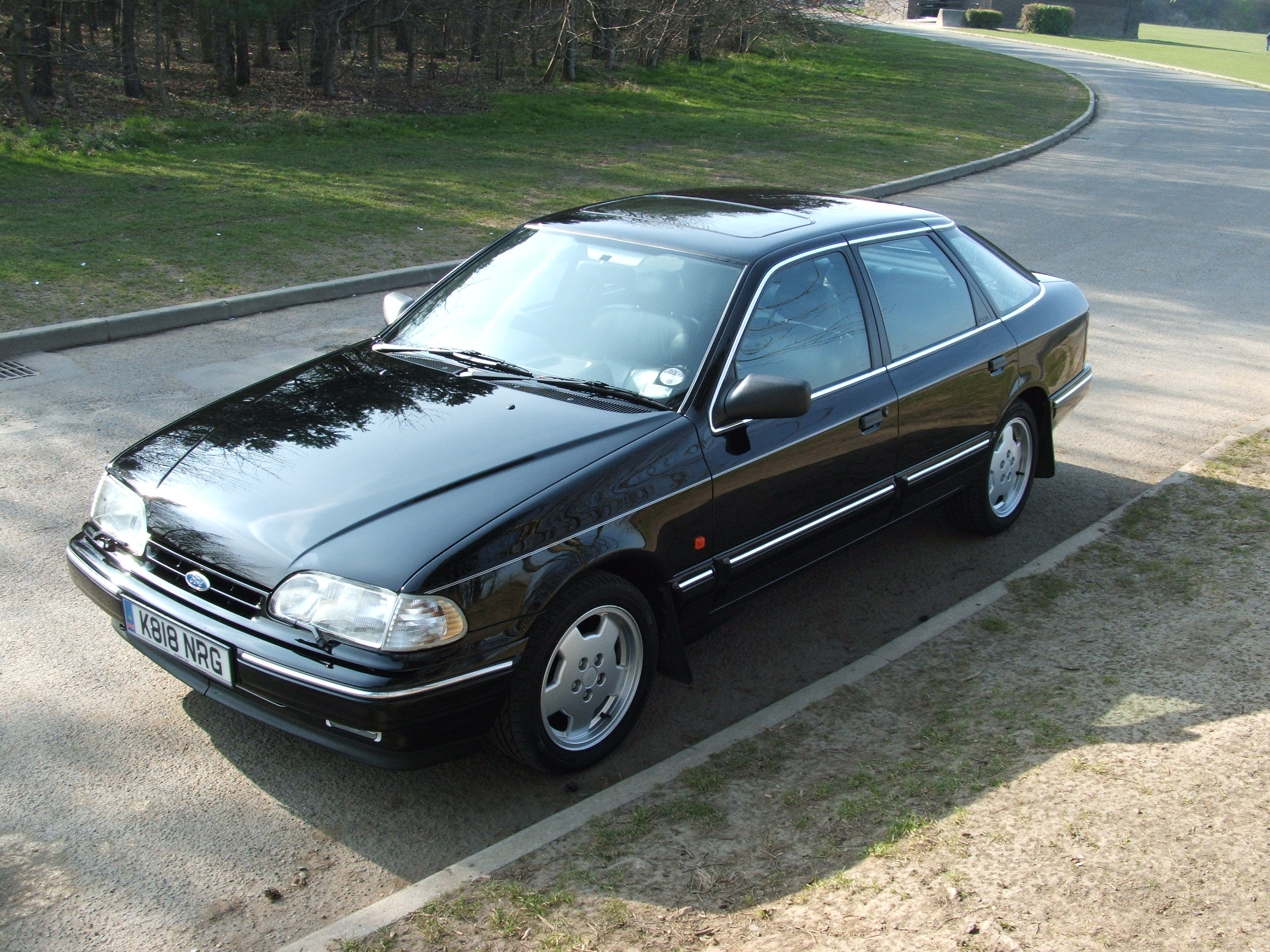 Ford Granada mkIII Scorpio 24v Cosworth